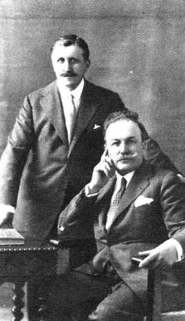 Spanish Writers Serafín and Joaquin Alvarez Quintero